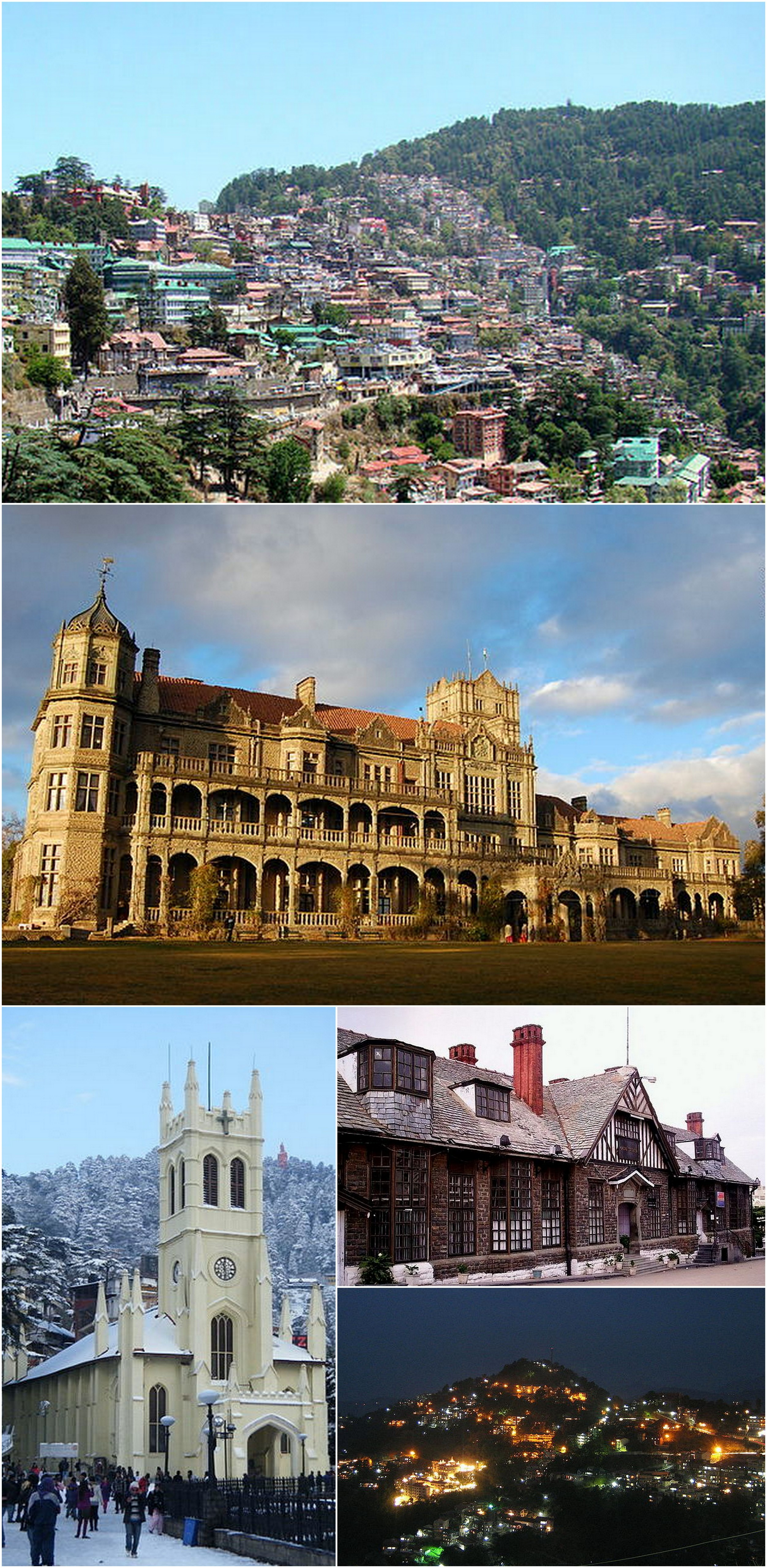 Shimla Montage - Clockwise from top: Skyline at Shimla Southern Side, Rashtrapati Niwas, Town hall, Night view of Shimla and Christ Church.